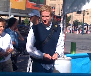 Join the fun at